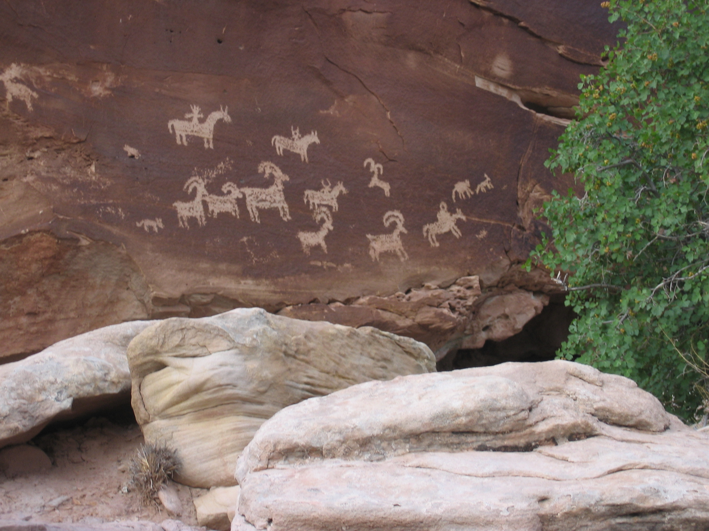 Photo of Ute Rock Art, carved by Native Americans around 1650 to 1850 CE. The photo was taken on the trail to Delicate Arch in Arches National Park, Utah, USA.